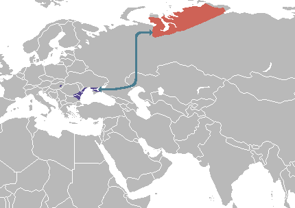 Distribution map of Branta ruficollis. Red - breeding Dark green - migration Purple - winter